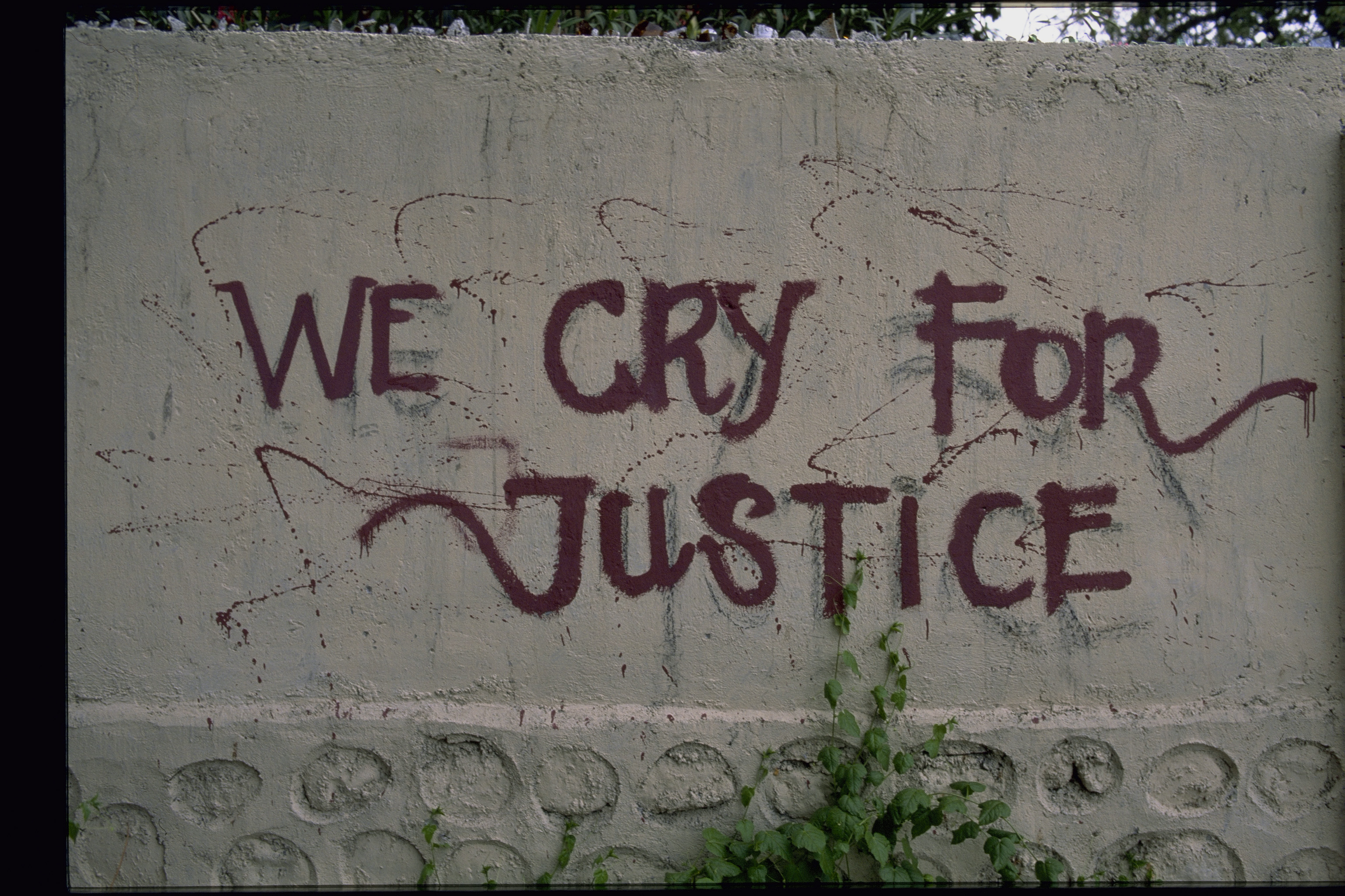 Graffiti in the streets shows the long struggle for freedom for East Timor.